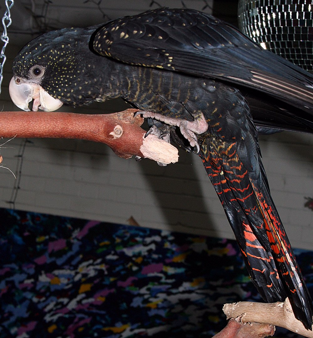 female Red-tailed Black Cockatoo (Calyptorhynchus banksii) pet - origin - WA wheatbelt